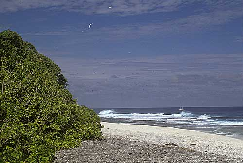 View from the western coast of Vostok Island, Line Islands, Kiribati.